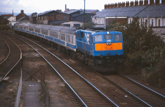 Railway at Adelaide (2). The working of the Belfast - Dublin trains is shared between NIR and Irish Rail. This is the NIR train approaching Adelaide station with the 18.00 to Dublin. The stock for the service is now in a common livery 602089. The Irish Rail train can be seen at 626585.